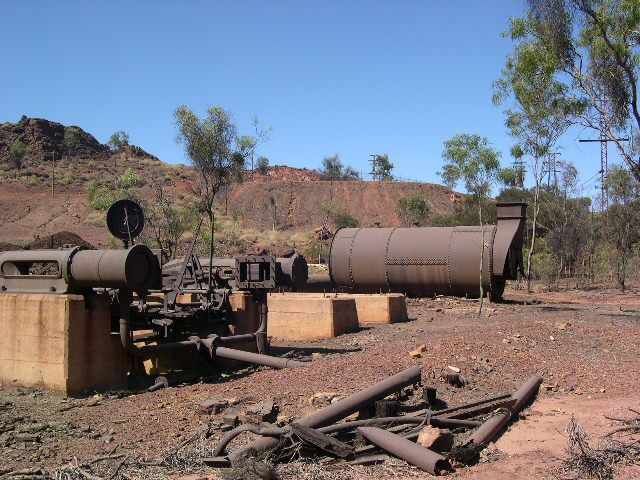 Winding engine and return flue boiler; Lawlor Shaft and Winding Plant (2003)